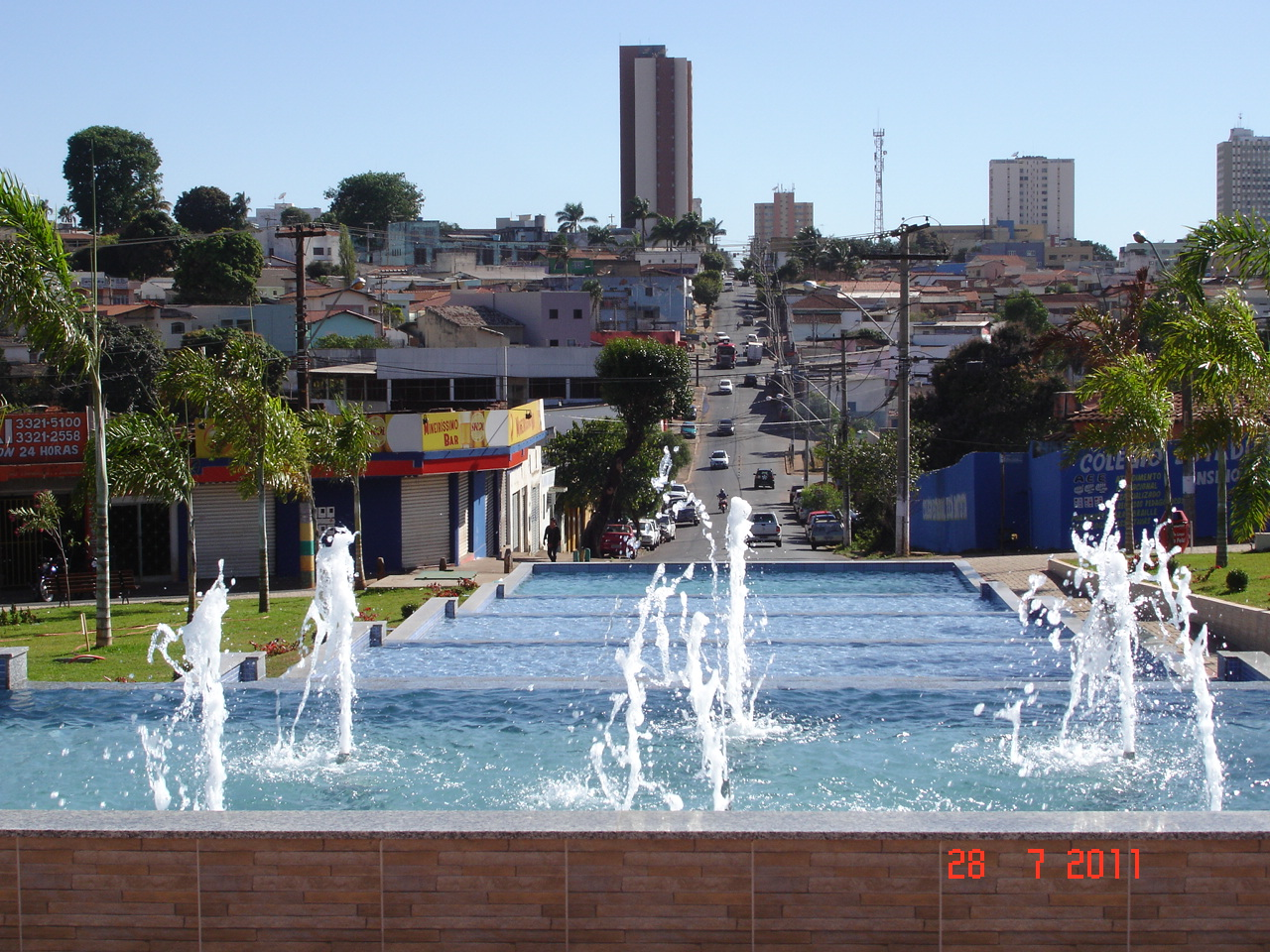 This a picture from the Conego Trindade Square in Anapolis, Goias, Brazil.